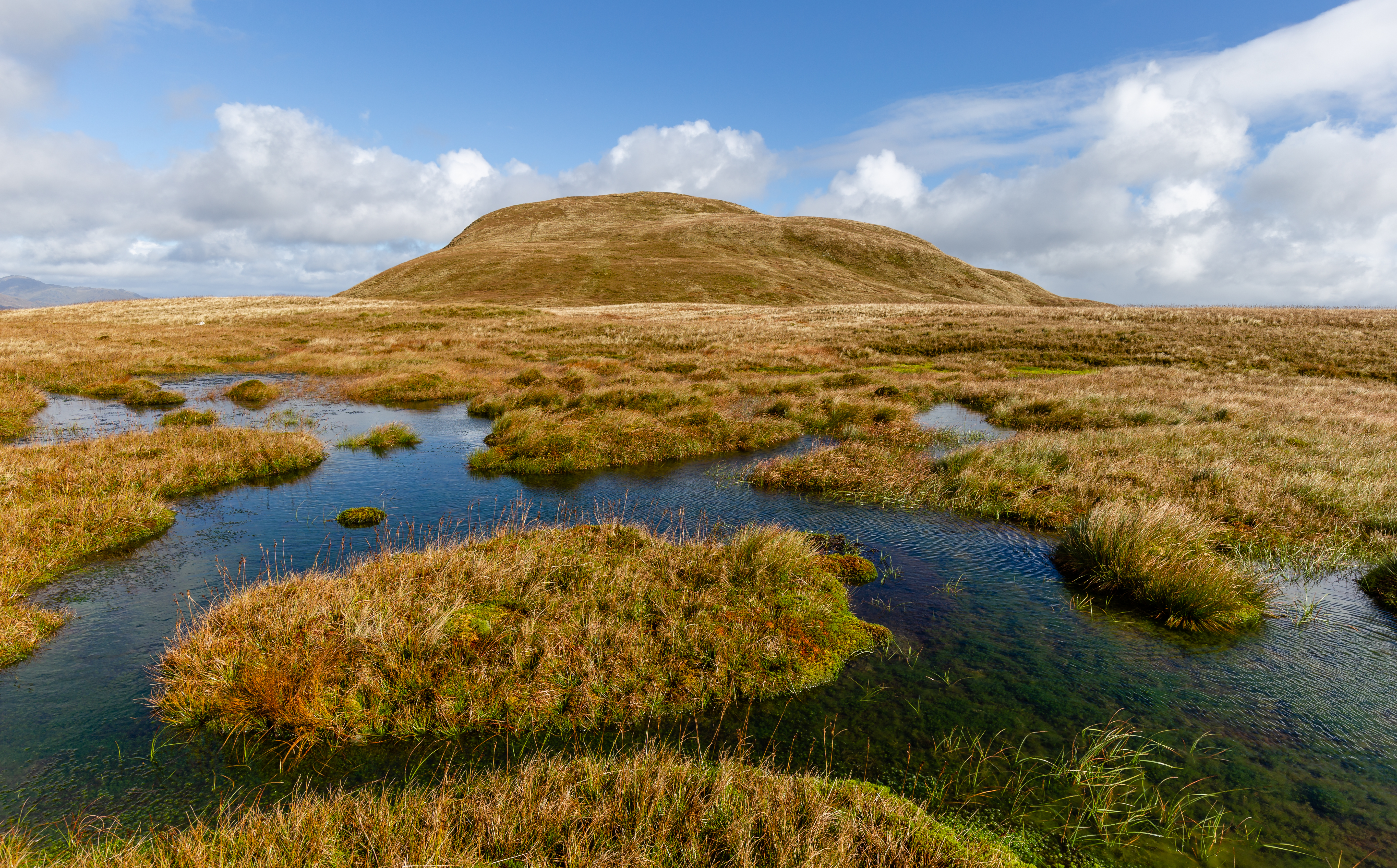 A peat bog below the top of Doune Hill. Luss Hills, Scotland